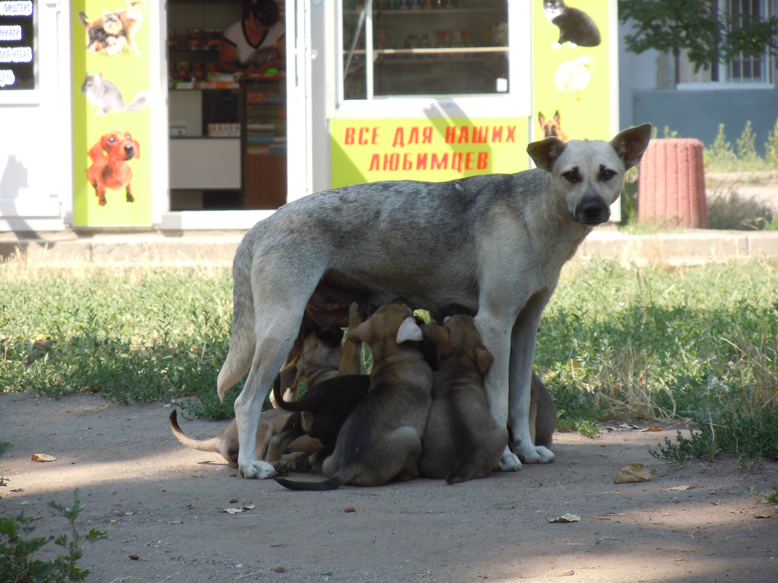 A dog with puppies, Odessa, Ukraine